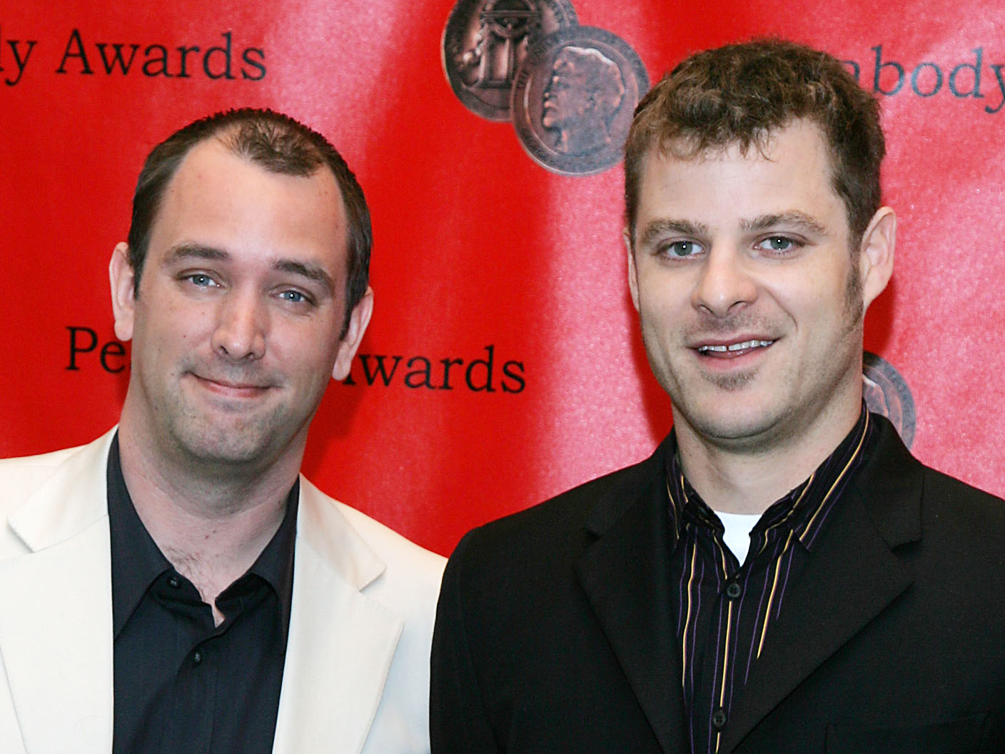 Trey Parker and Matt Stone